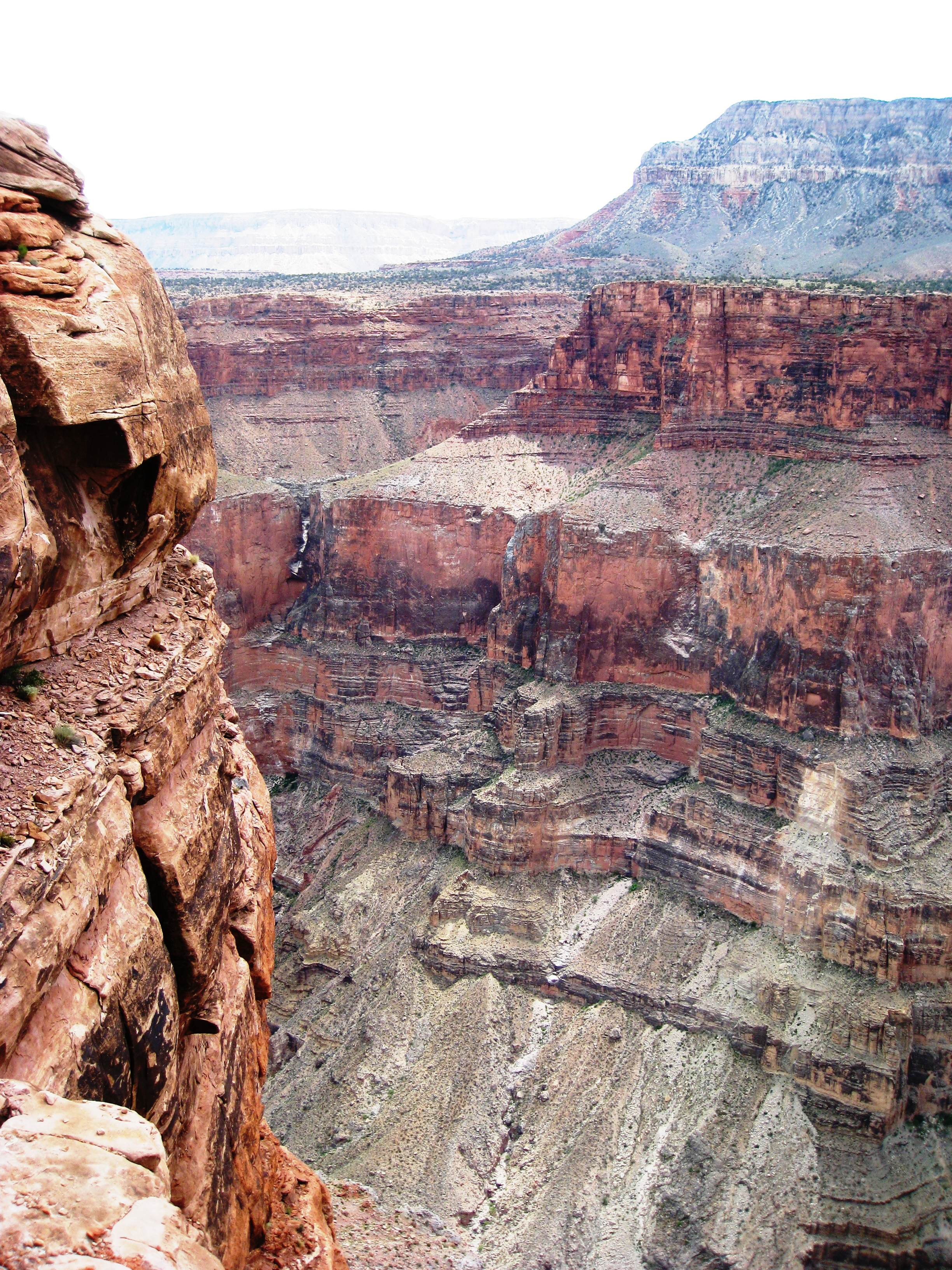 From the west side of the Toroweap area. There is about a 900 meter (3000 foot) drop to the Colorado river. sw2 546